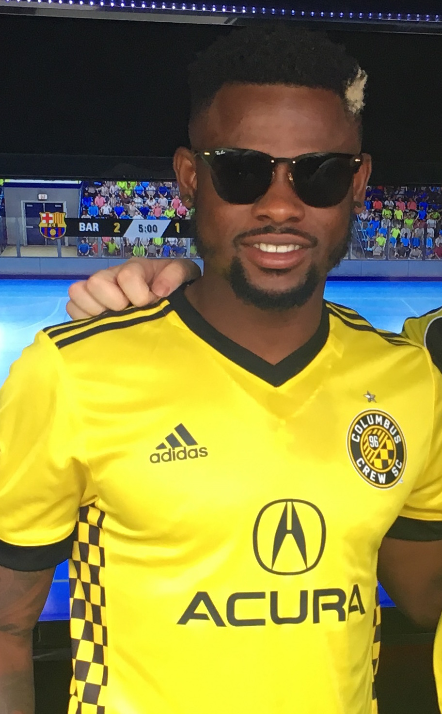 Picture of Waylon Francis at a Columbus Crew SC Meet the Team event in 2017.